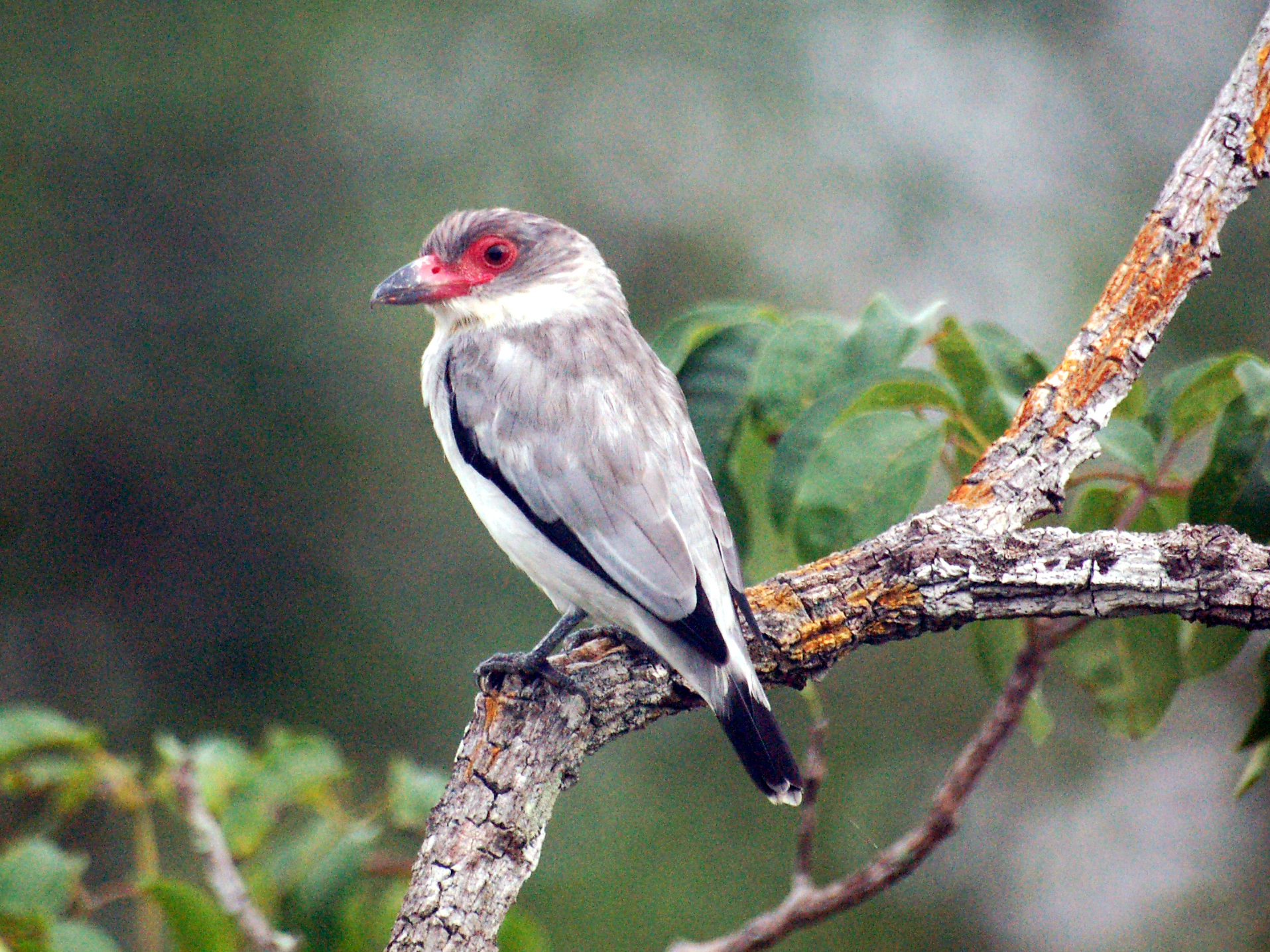 A Masked Tityra in Brazil.